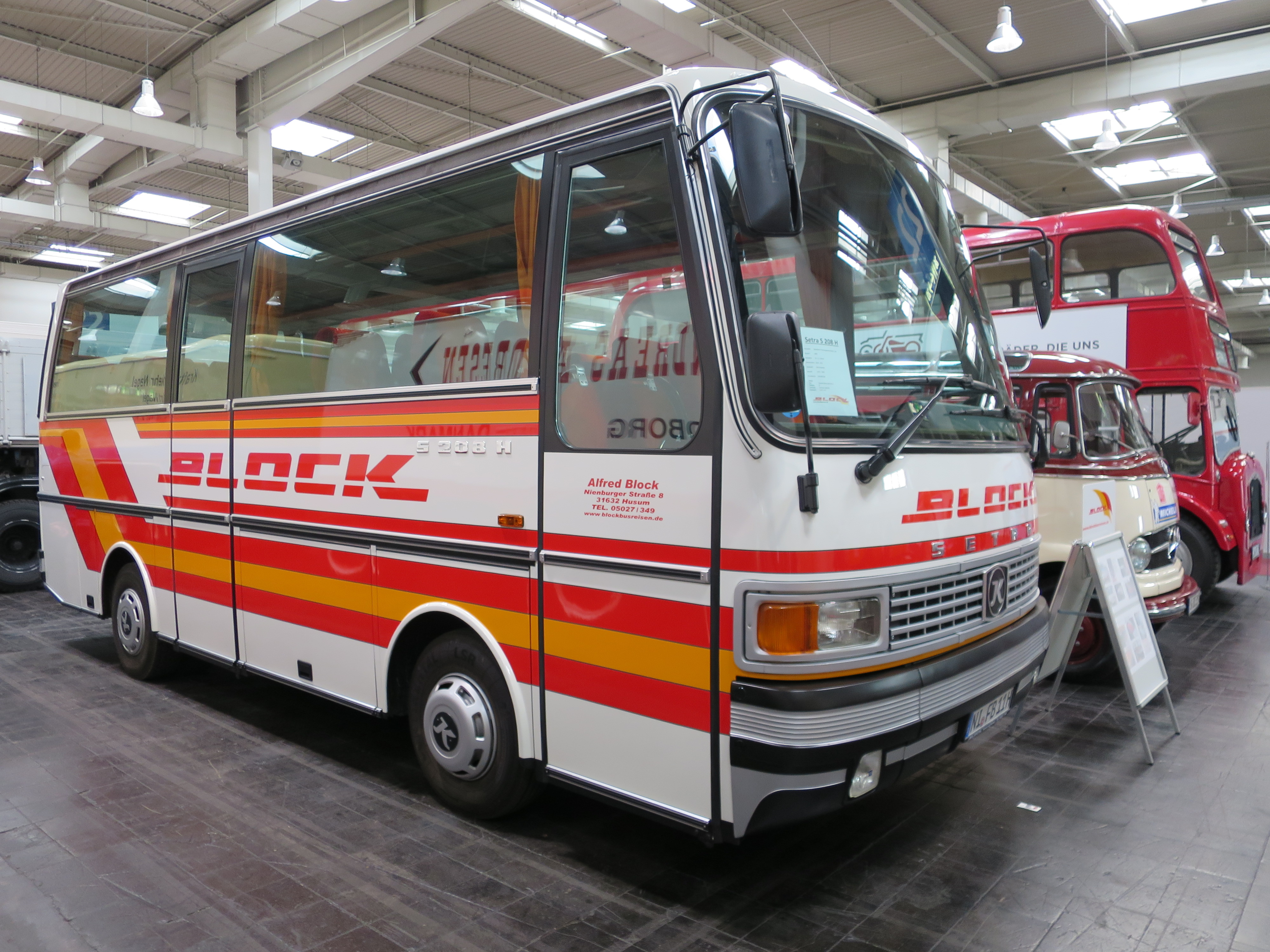 The making of this document was supported by Wikimedia Polska Association, within Wikigrant no. WG 2016-35. Setra S 208 H